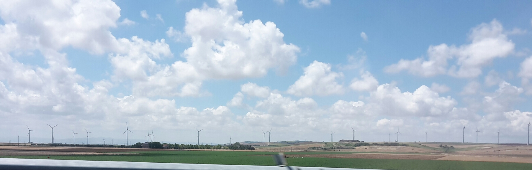 This is one of the many wind farms located in the Tavoliere delle Puglie.